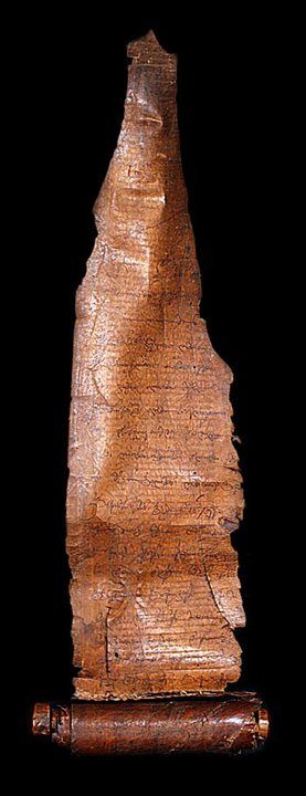 A royal charter of King Bagrat III of Imereti